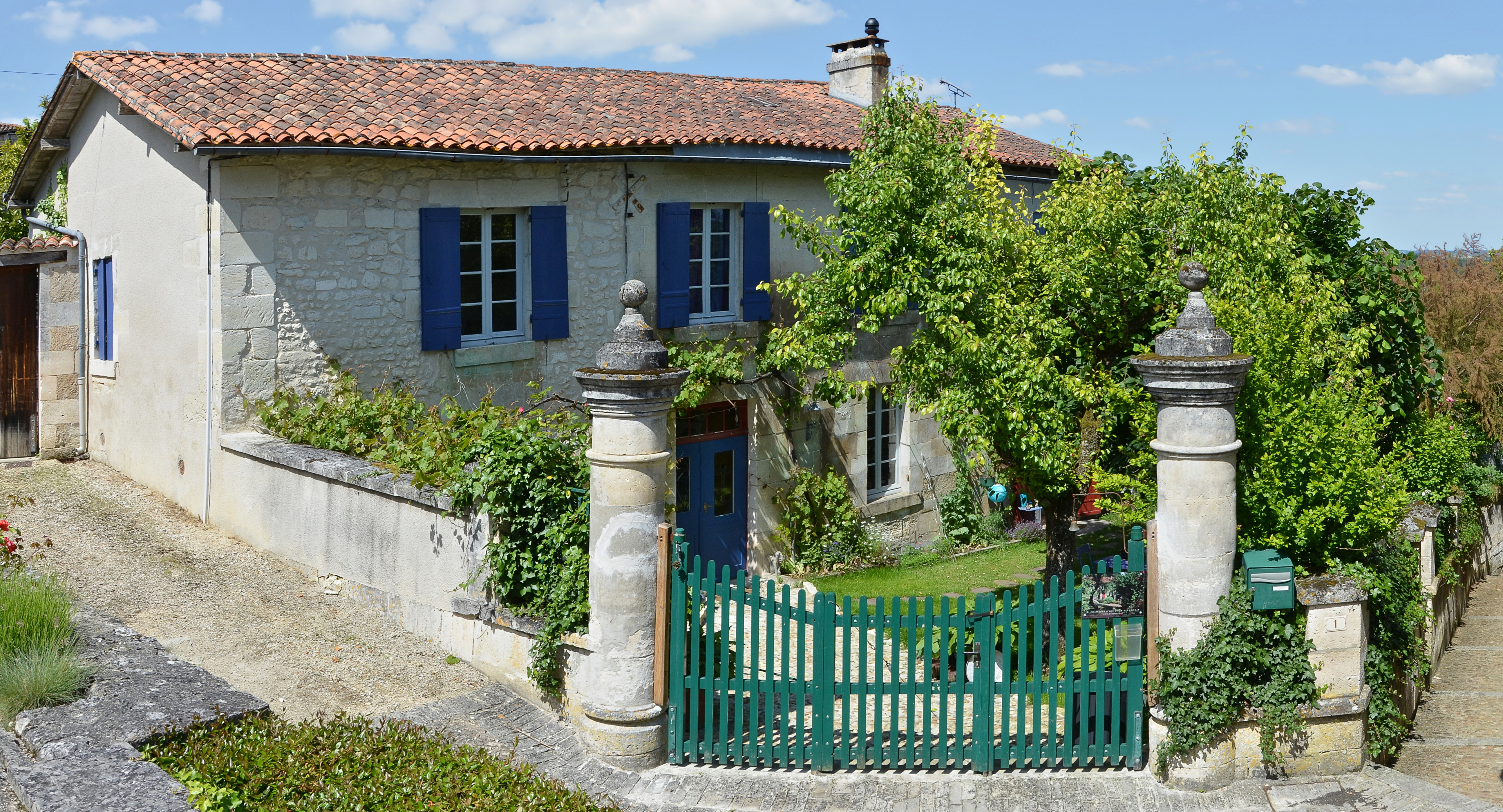 Old traditional house, renewed and used as a B. & B. Aubeterre-sur-Dronne, Charente, France.